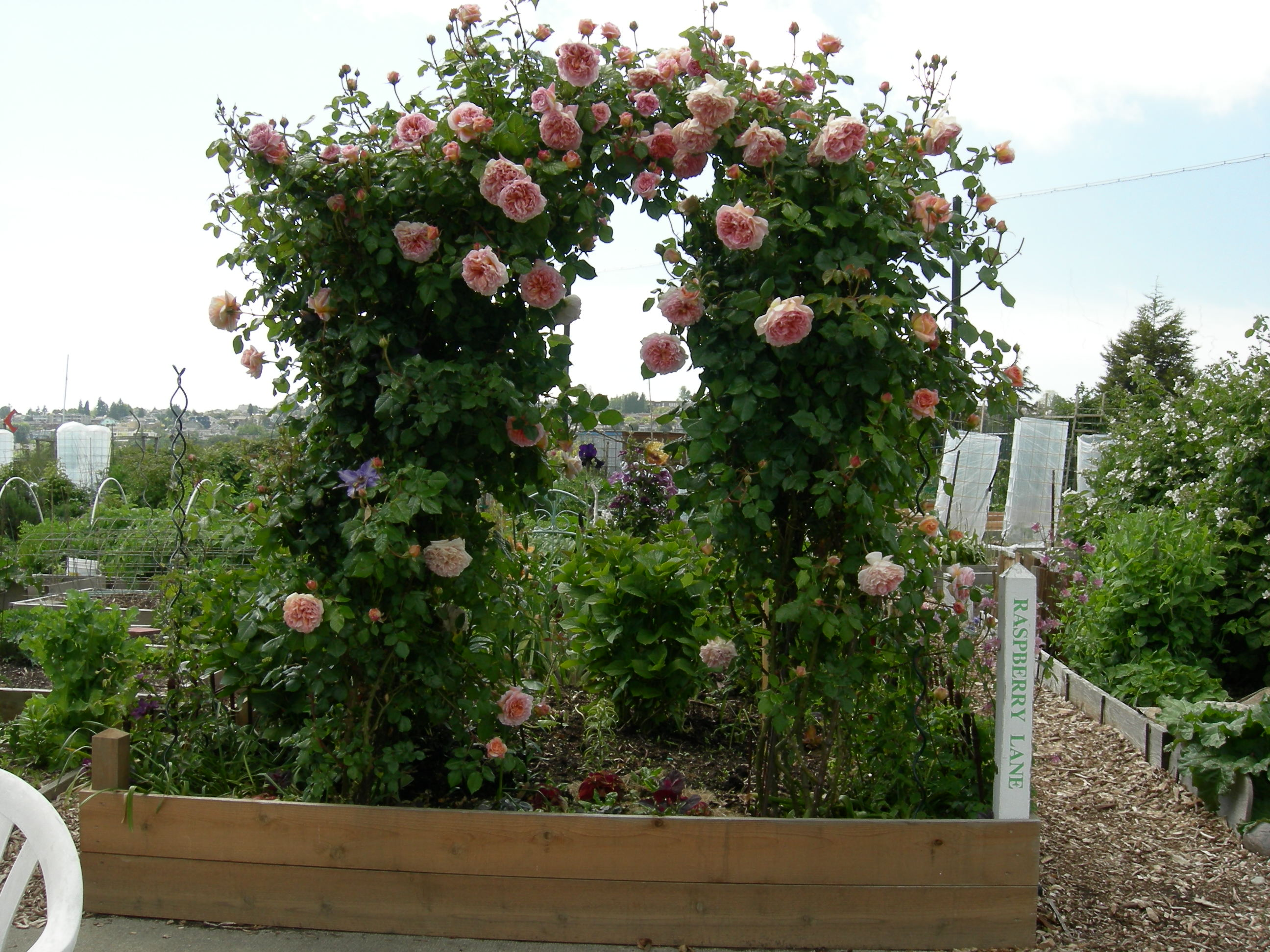 Roses along a trellis, Interbay P-Patch (community garden), Interbay neighborhood, Seattle, Washington.